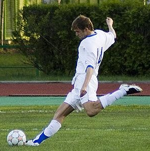 Aleksei Kolomychenko in action for FC Baltika